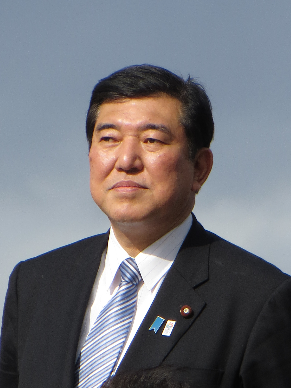 Shigeru Ishiba in Takarazuka, Hyōgo.